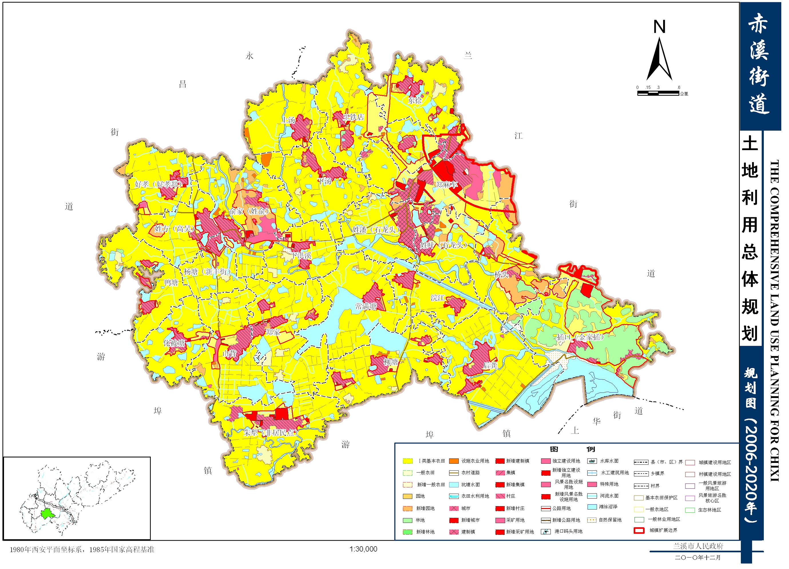 This is a map of that region, as well as future development plan.